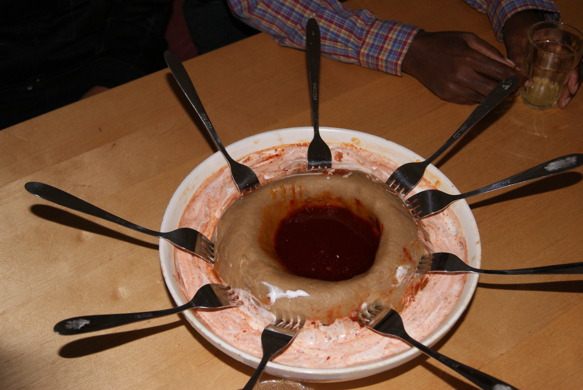 Ga'at is an Eritrean and Ethiopian breakfast dish. It is traditionally served when a new child is born.